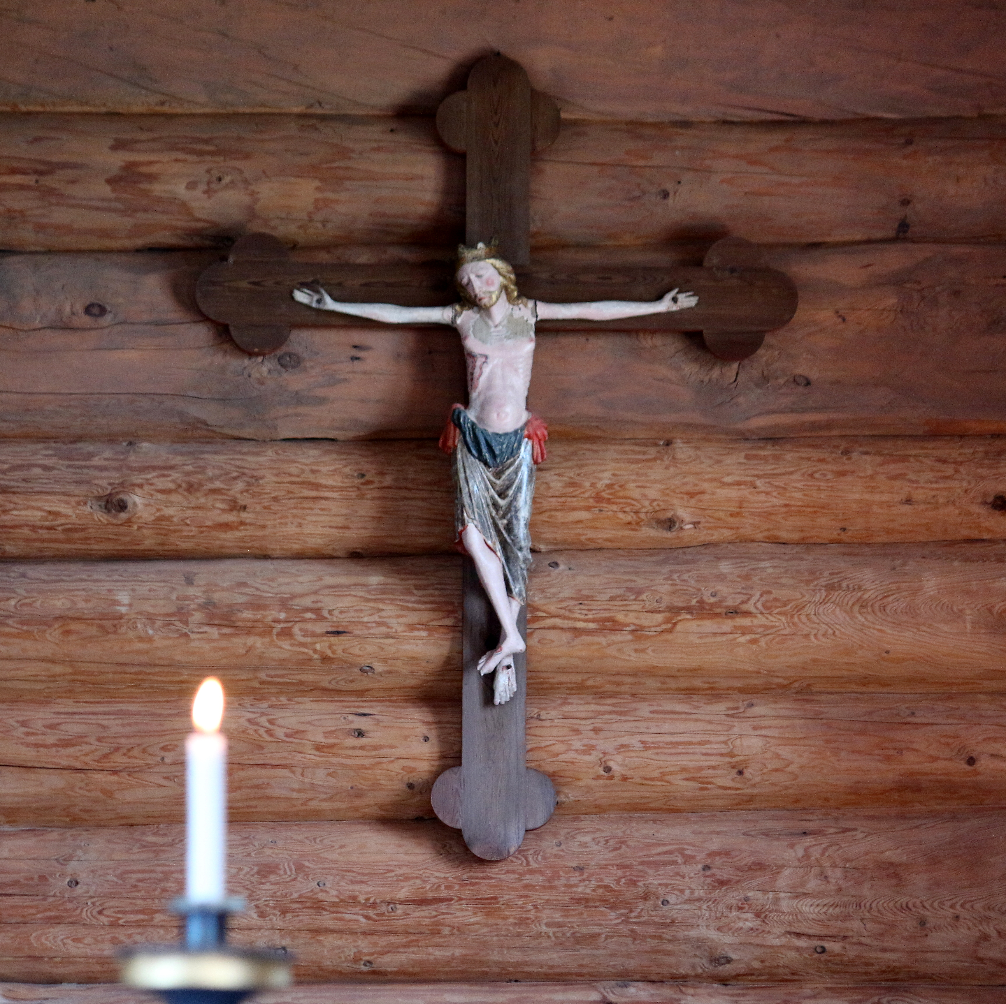 Leksvik church - crucifix.